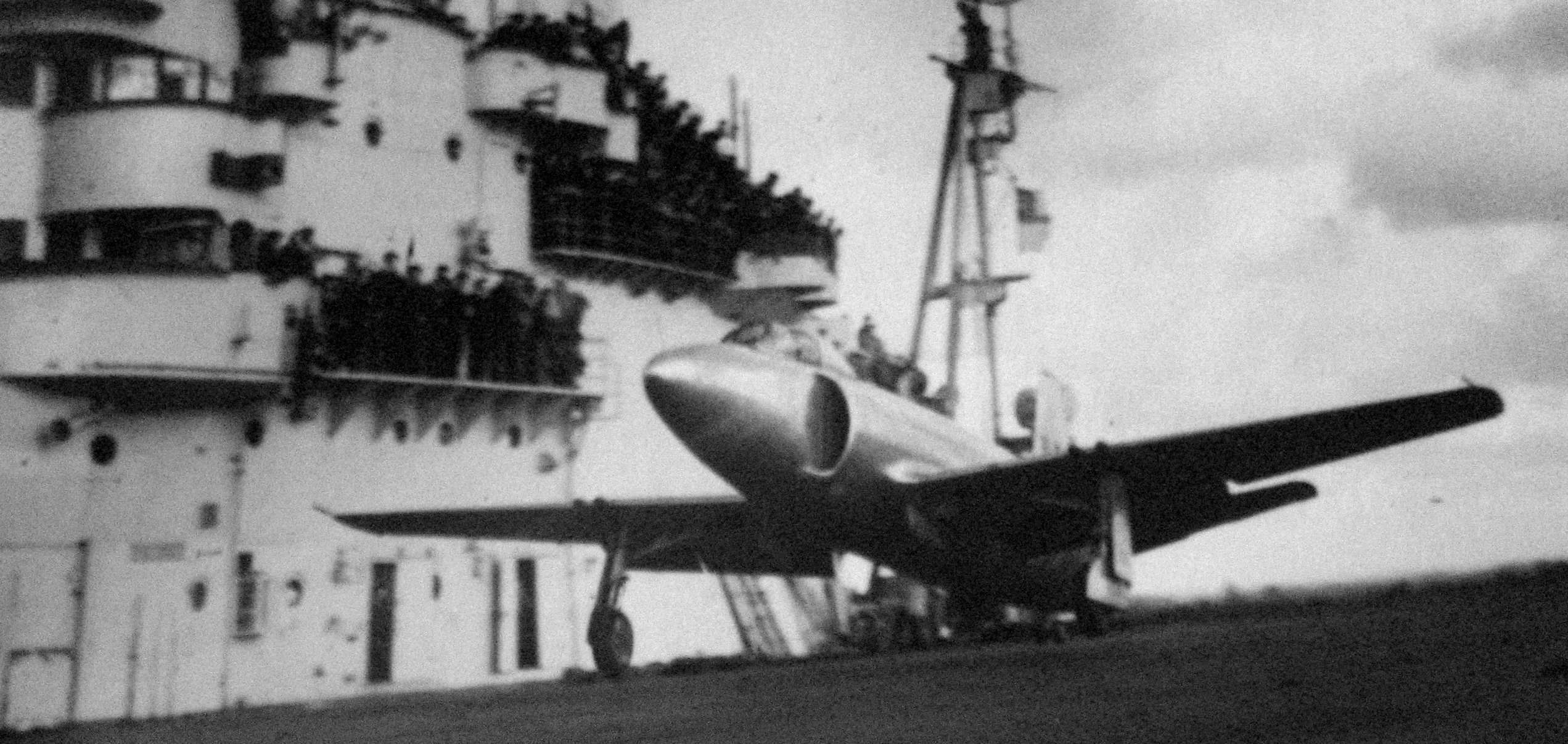 Early jet plane landing on HMS Illustrious in 1948 during A period of Compulsory national service after the war